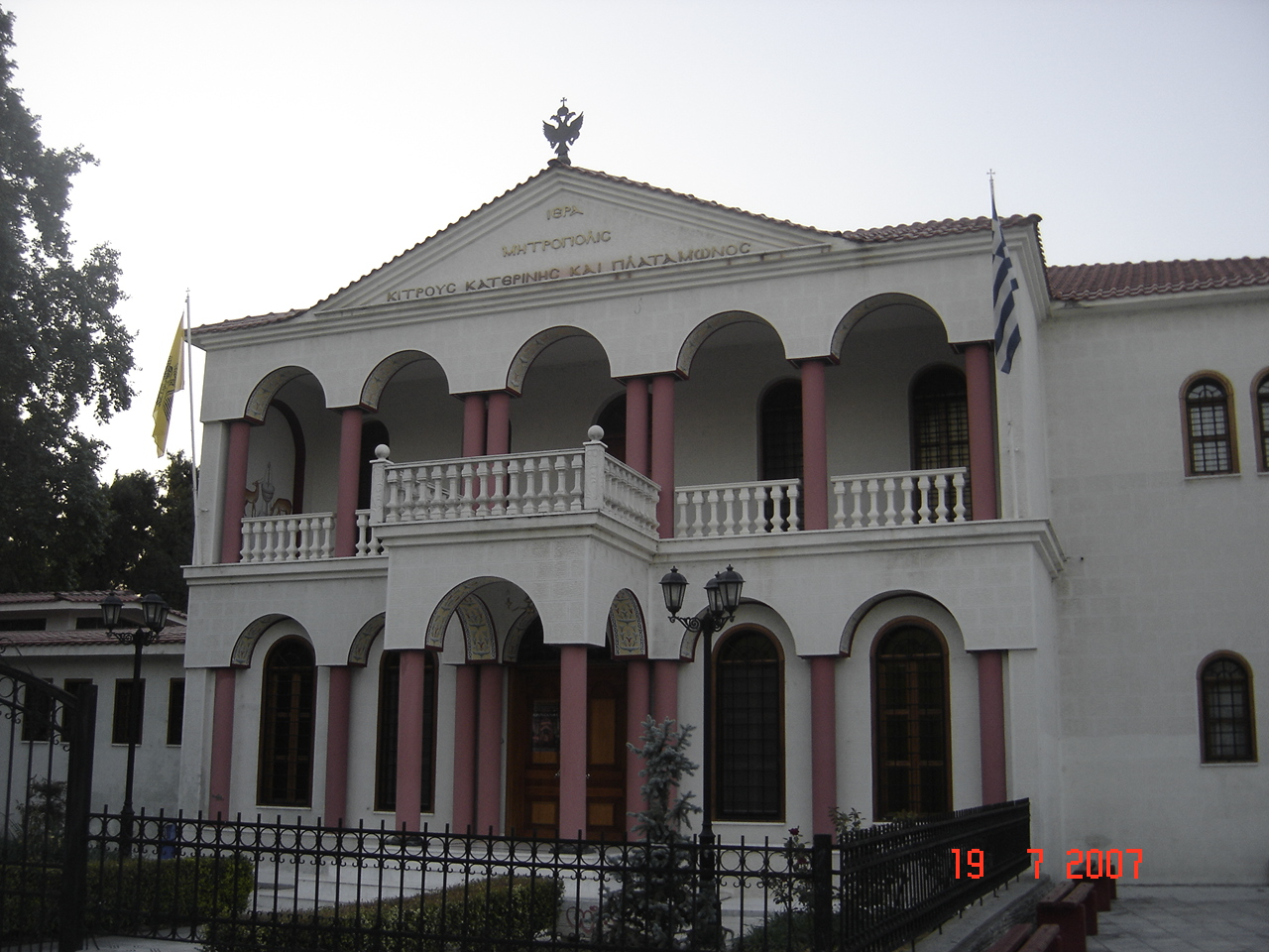 The seat of the Metropolis of Katerini, Kitrous and Platamon, in Katerini.